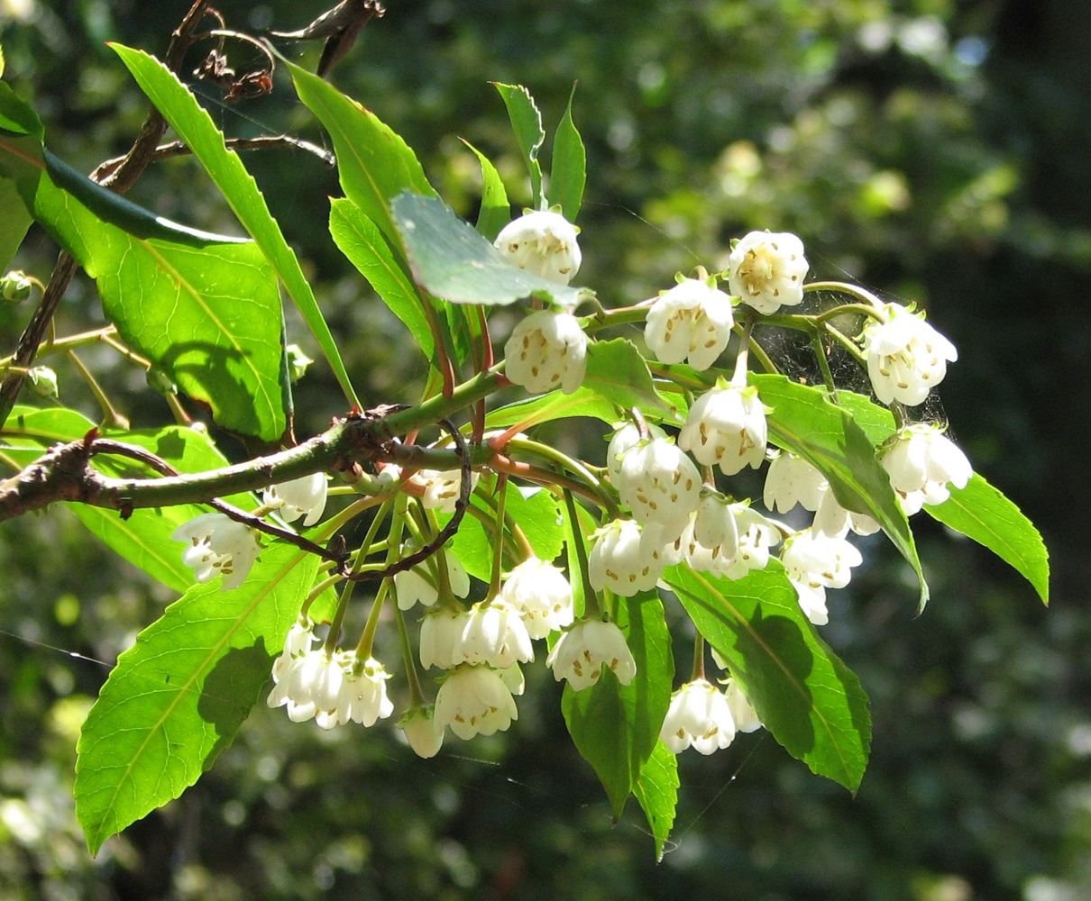 Anopterus macleayanus (cultivated, labelled) Royal Botanic Gardens, Melbourne